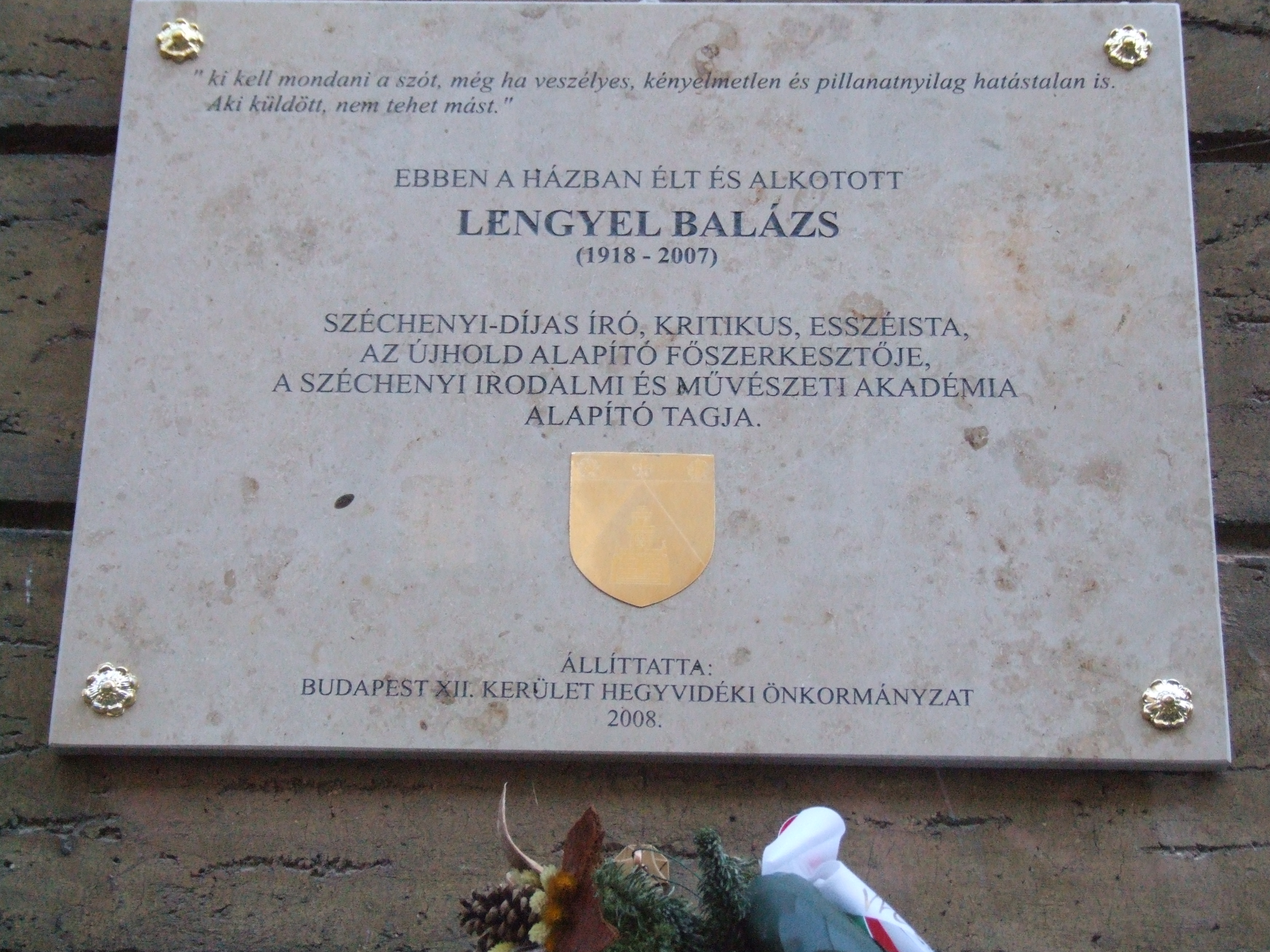 The writer Balázs Lengyel commemorative plaque in Budapest District XII, Királyhágó Street No 5/b